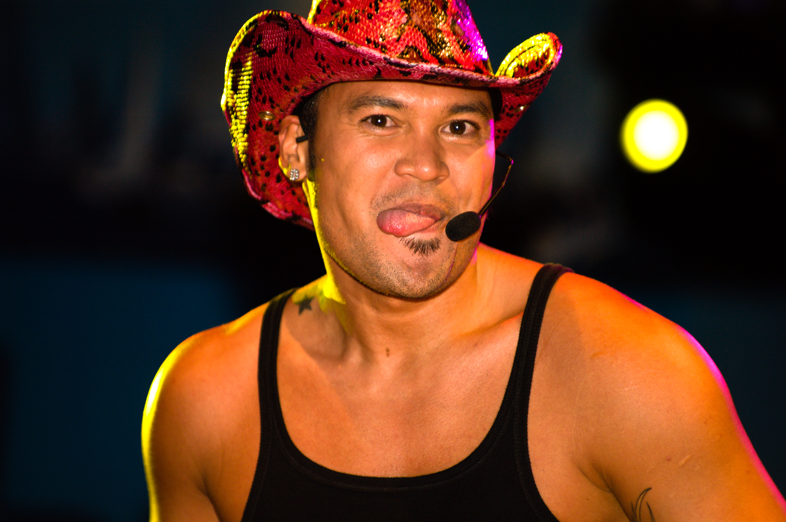 NDR Welle Nord Sommertour Quickborn: Donny Latupeirissa of the Vengaboys